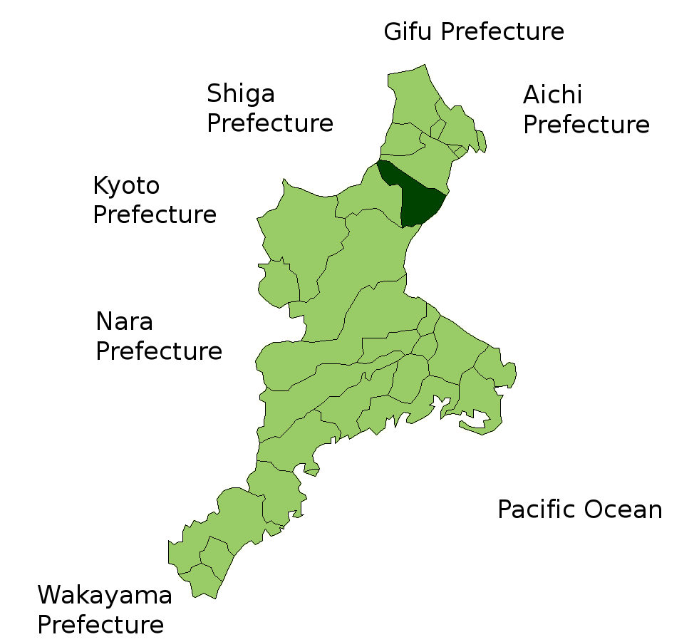 Location Map of Suzuka in Mie Prefecture, Japan